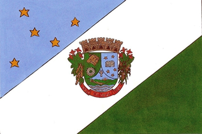 Flag of city of Colinas, Rio Grande do Sul, Brazil